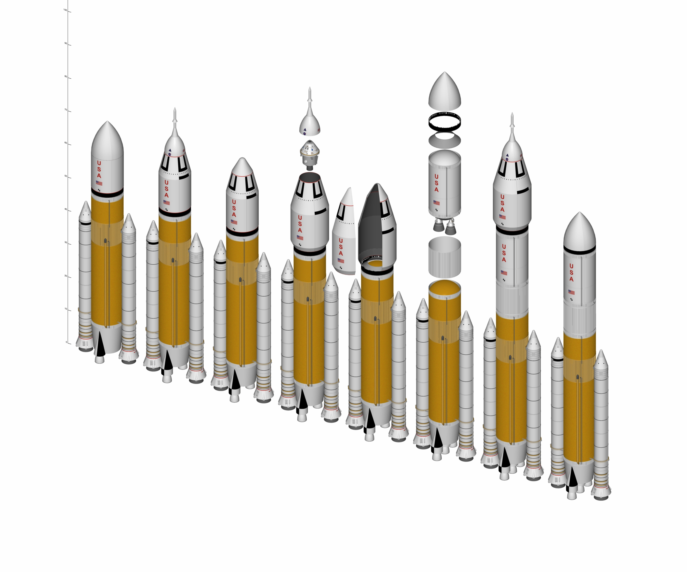 A few of the many possible configurations of the Jupiter Launch Vehicle family. From left to right: Jupiter-120 Cargo Launch Vehicle configuration with low-CD Ogive 8.4m diameter Payload Fairing and "Long" style Aft Engine Mount Structure. Jupiter-120 Crew & Cargo configuration w/ 8.4m dia PLF, Orion Spacecraft and "Pod" style Aft Engine Mounting Structure. Jupiter-120 Cargo configuration using standard PLF and an 18ft 'Cap' Jupiter-120 Crew & Cargo configuration with Orion spacecraft and a 10.0m dia PLF. Jupiter-120 Cargo configuration using 10.0m PLF. Jupiter-232 Lunar EDS/Propellant-only configuration with minimal fairing (exploded image) Jupiter-232 Lunar Crew & Spacecraft configuration with 10.0m dia PLF. For more information please visit